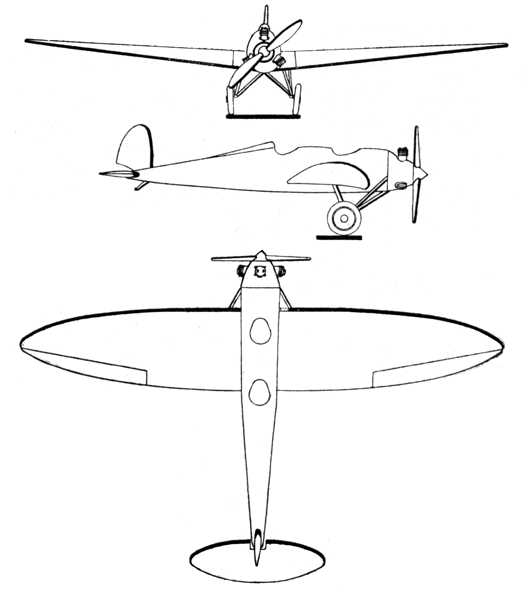 Bäumer Sausewind 3-view drawing from Les Ailes July 21,1927